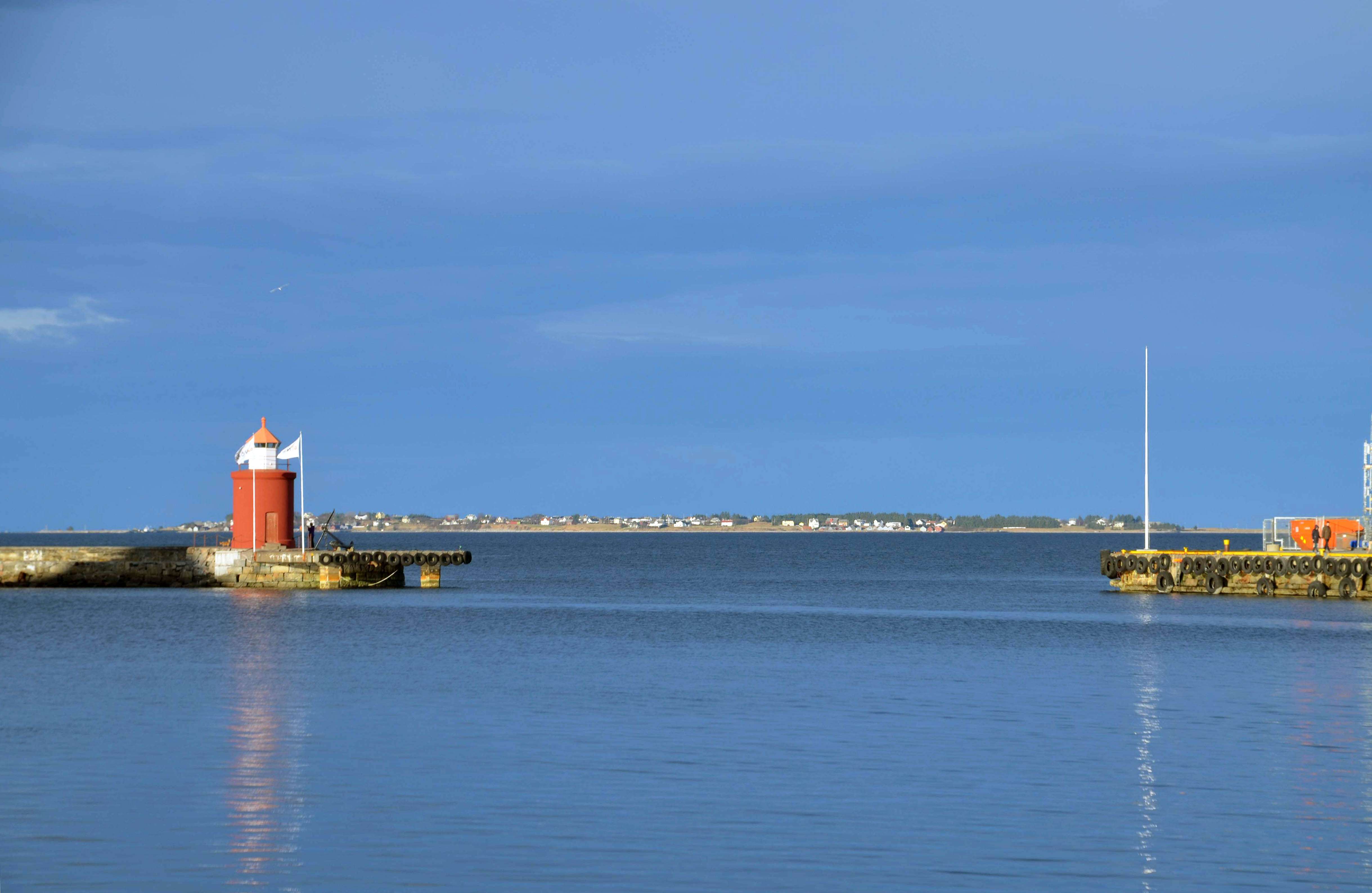 Alesund, Norway